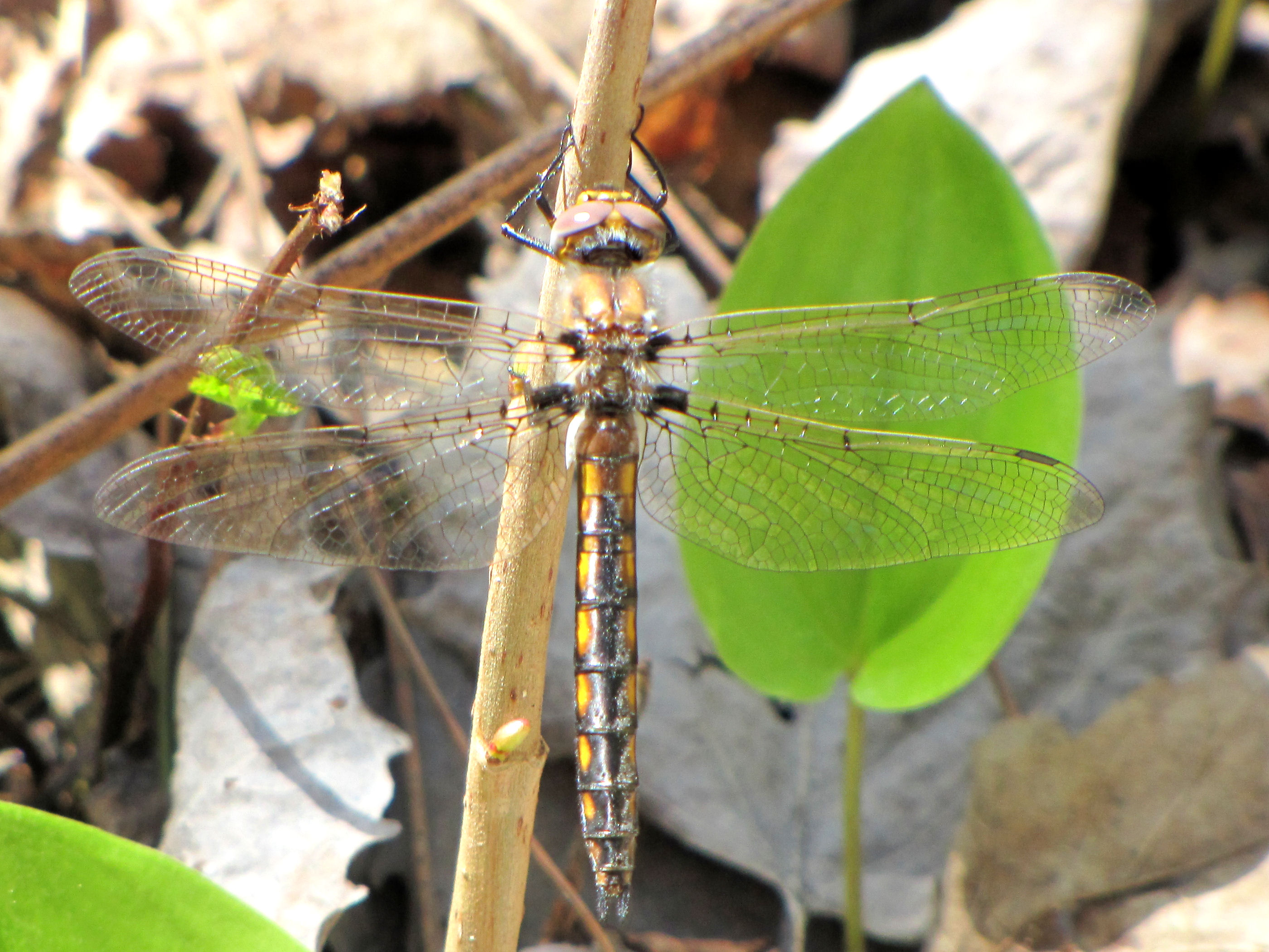 Common Baskettail (Epitheca cynosura), female, Pine Grove Trail, Ottawa, Ontario